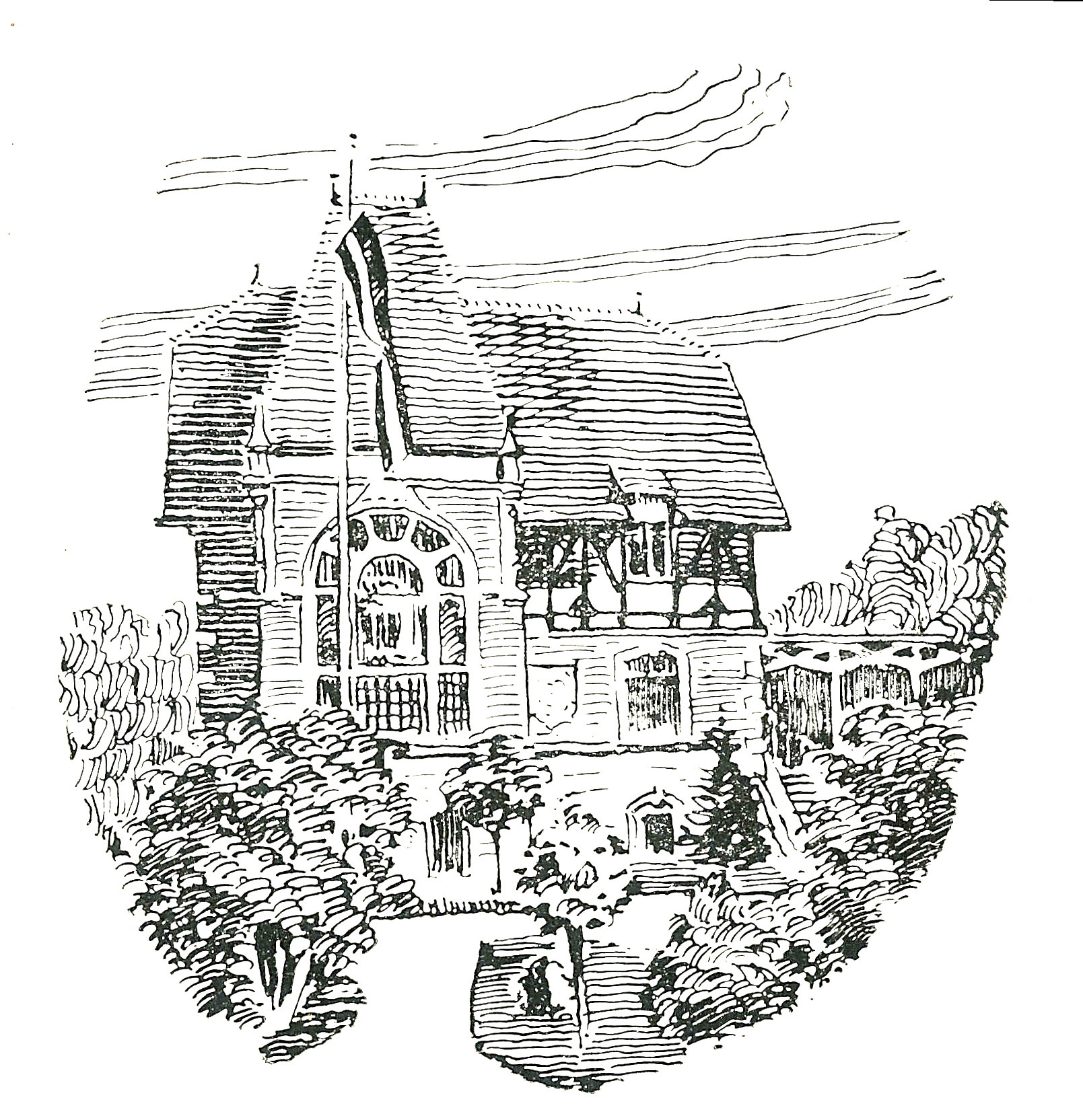 Former house of former student fraternity Corps Guestphalia Jena (Germany), Wagnergasse 26a